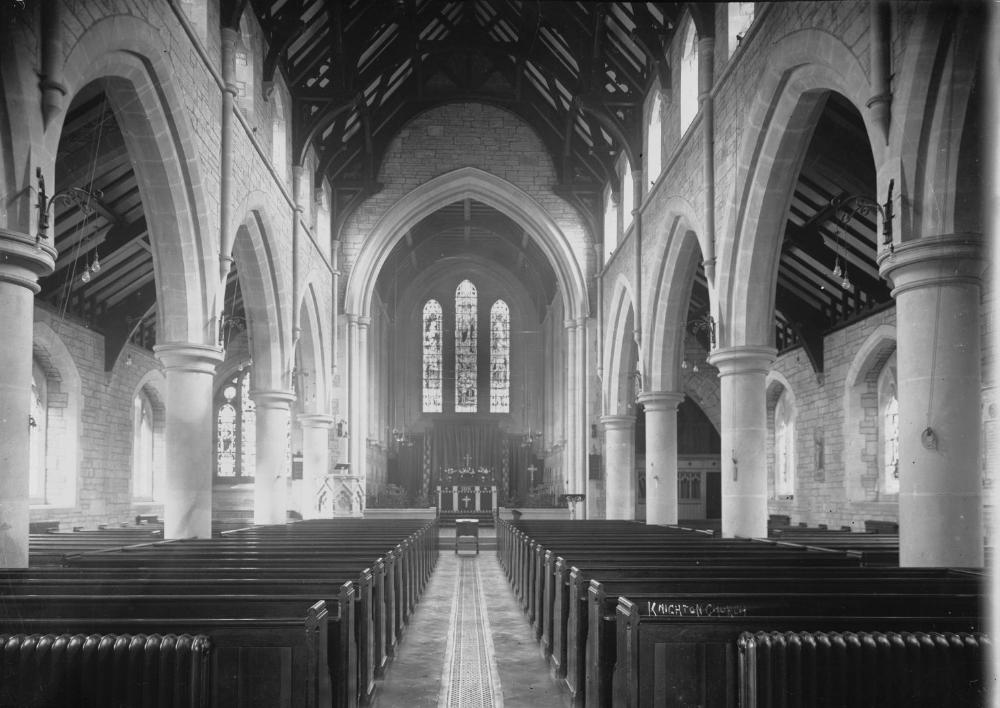 Abstract: Knighton church